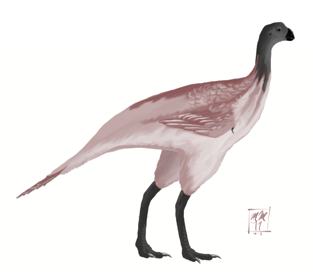 Illustration of Avimimus portentosus, a basal oviraptorosaurian dinosaur. Skull based on specimen PIN 3907/3. Credit Matt Martyniuk